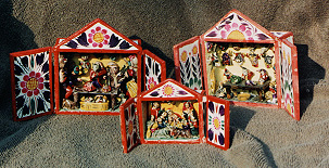 Photo of Peruvian Retablo